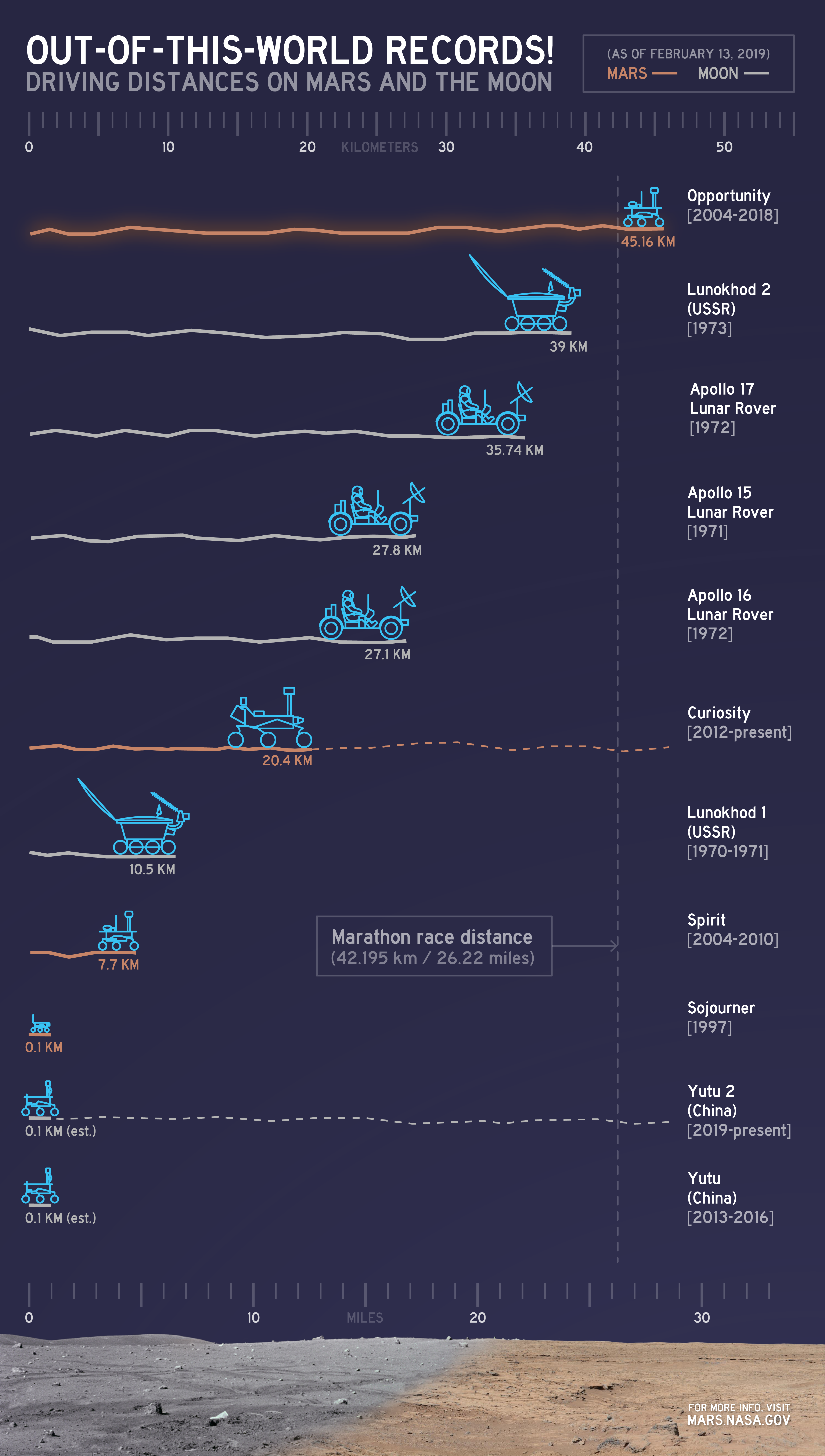 Driving Distances by rovers on Mars and the Moon. Includes (from oldest to newest): Lunokhod 1, Apollo 15 Lunar Rover, Apollo 16 Lunar Rover, Apollo 17 Lunar Rover, Lunokhod 2, Sojourner, Spirit, Opportunity, Curiosity, and Yutu-1. Figures are accurate as of 13 February 2019. Additional information: Knapp, Alex (29 July 2014). "NASA's Opportunity Rover Sets A Record For Off-World Driving". Forbes. Wall, Mike (29 July 2014). "NASA's Mars rover Opportunity breaks off-world driving record". CBS News. Yutu: Qunzhi, Li (2014). A Priority Method of Cruise Direction for the Lunar Rover. 65th International Astronomical Congress. 29 September-3 October 2014. Toronto, Canada. Sojourner: Sojourner. Michigan State University. Retrieved on 27 December 2014.